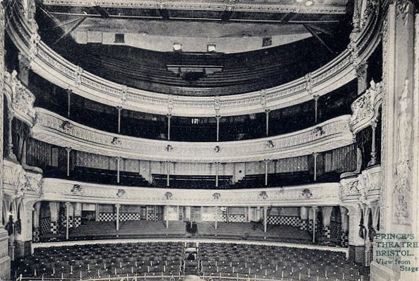 The auditorium of the Prince's Theatre Bristol c1905